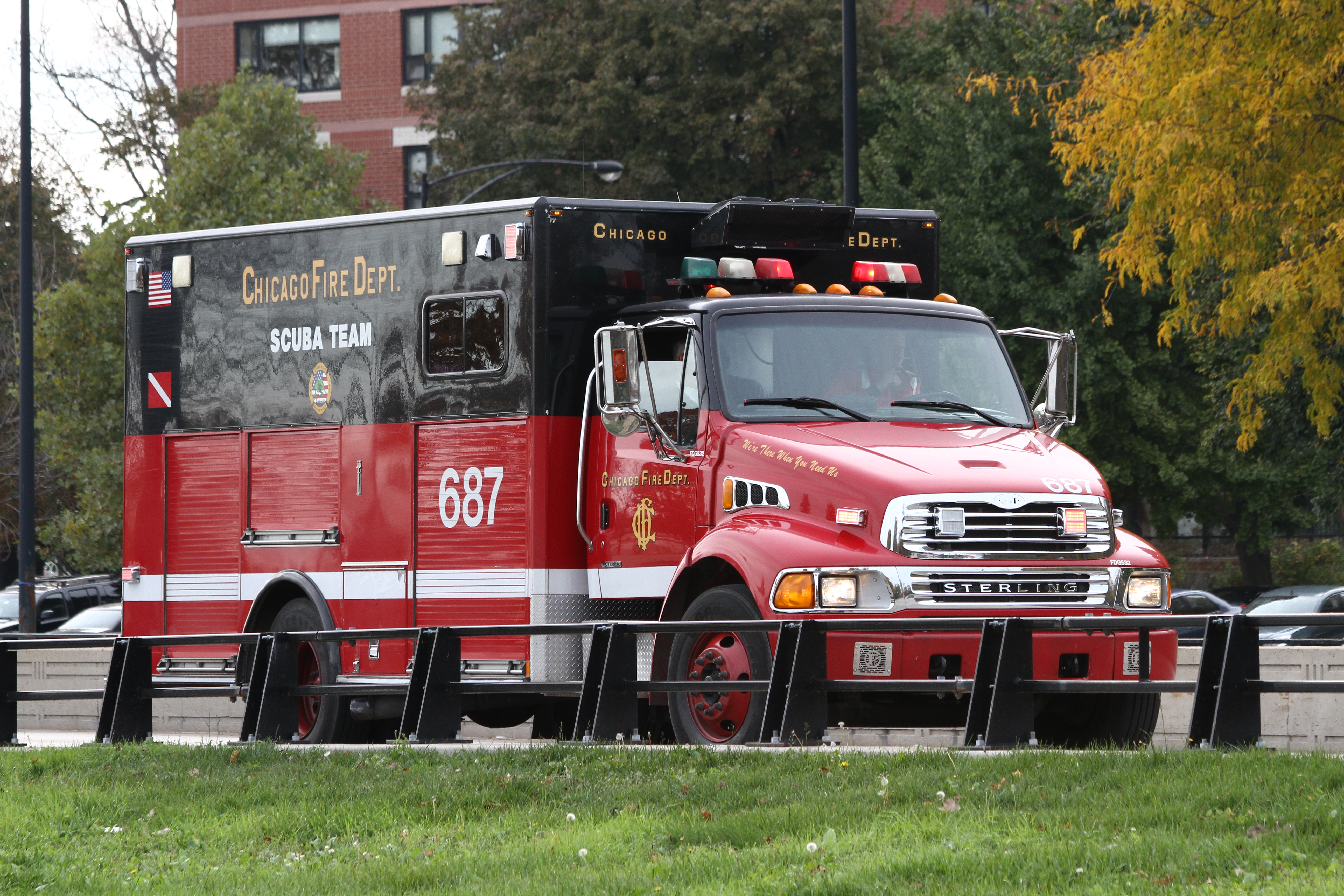 Chicago Fire Department Scuba Team truck on Lake Shore Drive in Hyde Park, Chicago